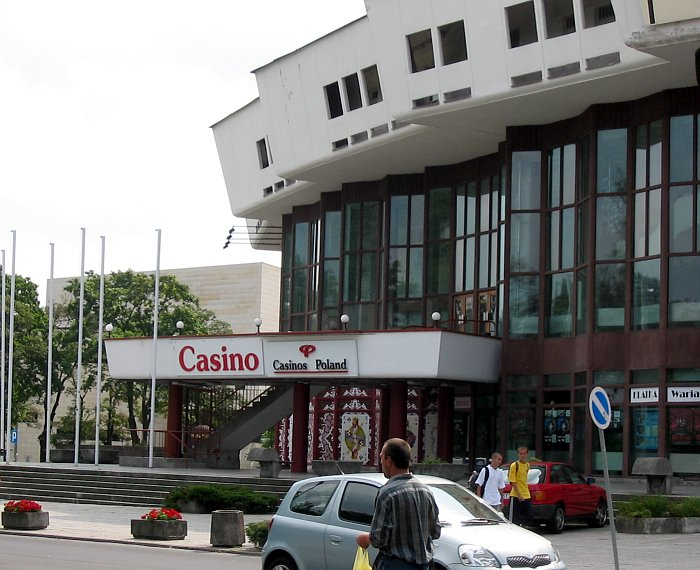 Casino in Gdynia, Poland